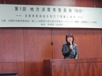 Kazuko Kōri, Parliamentary Secretary of Cabinet Office, attended a meeting of the Consumer Commission, Cabinet Office at Sendai City Hall in Sendai City, Miyagi Prefecture on January 21, 2012.